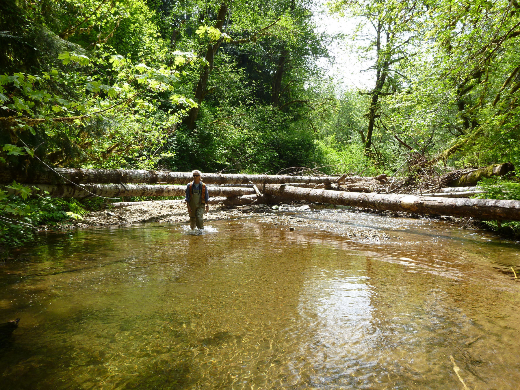 Working with the Coquille Indian Tribe, local watershed councils and a private timber company, the Coos Bay District restored about 30 miles of stream in the Coos, Coquille, Smith and Umpqua watersheds. The partners placed logs, trees, boulders and boulder weirs to improve fish and aquatic habits in Oregon’s southern coast.